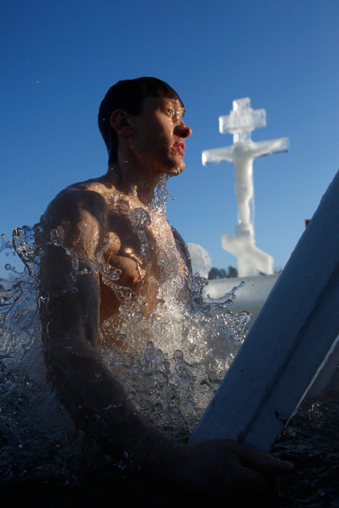 “Baptism of Jesus celebrated in Tatarstan”. A man bathing by the walls of Raifsky Monastery of Our Lady during the celebration of the Baptism of Jesus.